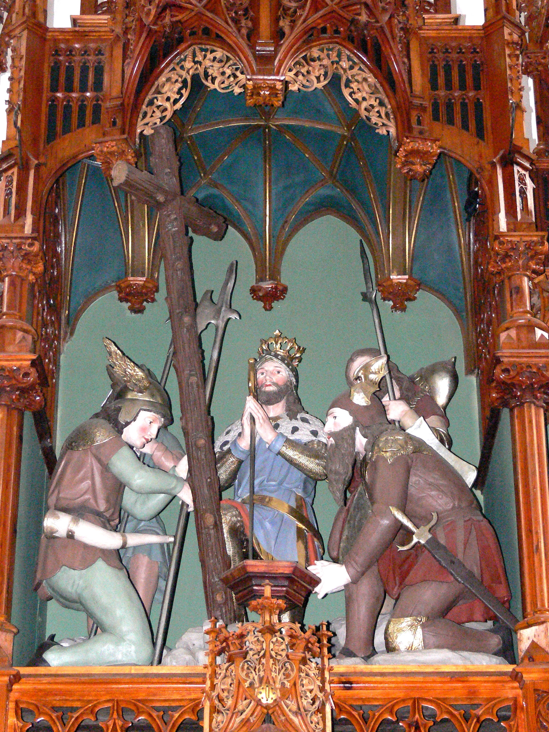 Saint Oswald parish church. High altar by Joseph Kepplinger ( 1894 ): Conversion of Saint Oswald - Saint Oswald promising before the battle of Maserfelth ( Oswestry) to fight for Christ.